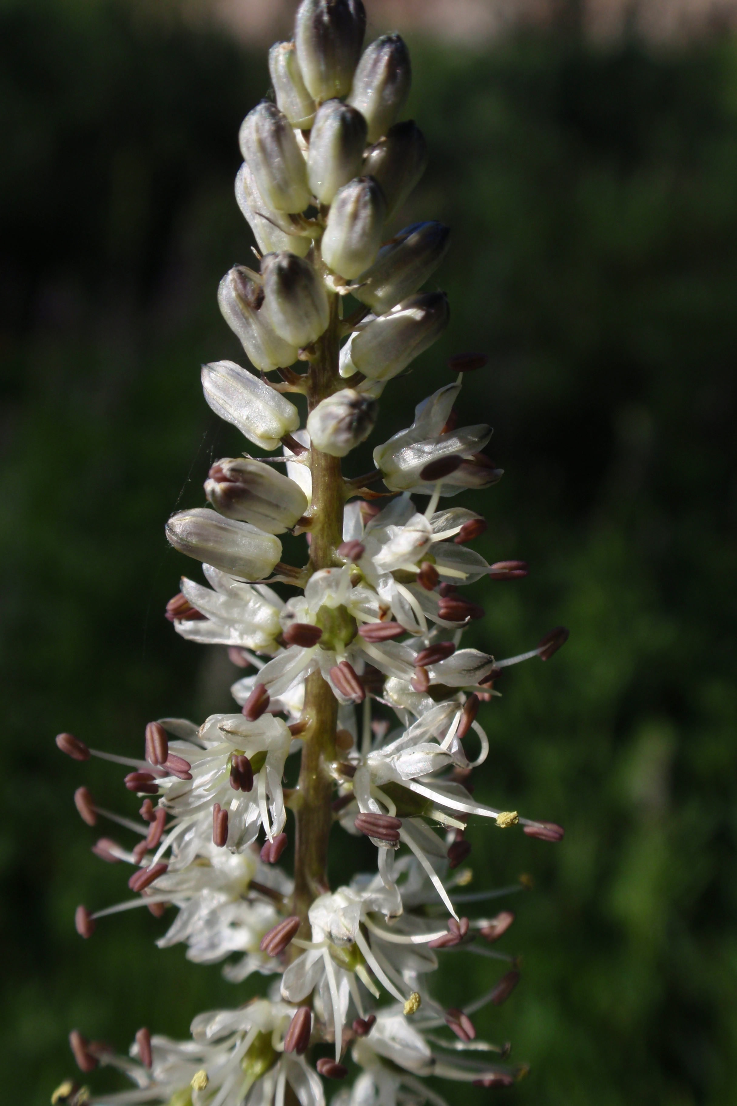 Hastingsia alba in Long Canyon, Trinity Alps, California, USA.